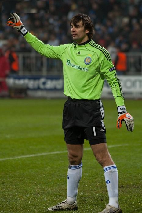 Oleksandr Shovkovskiy